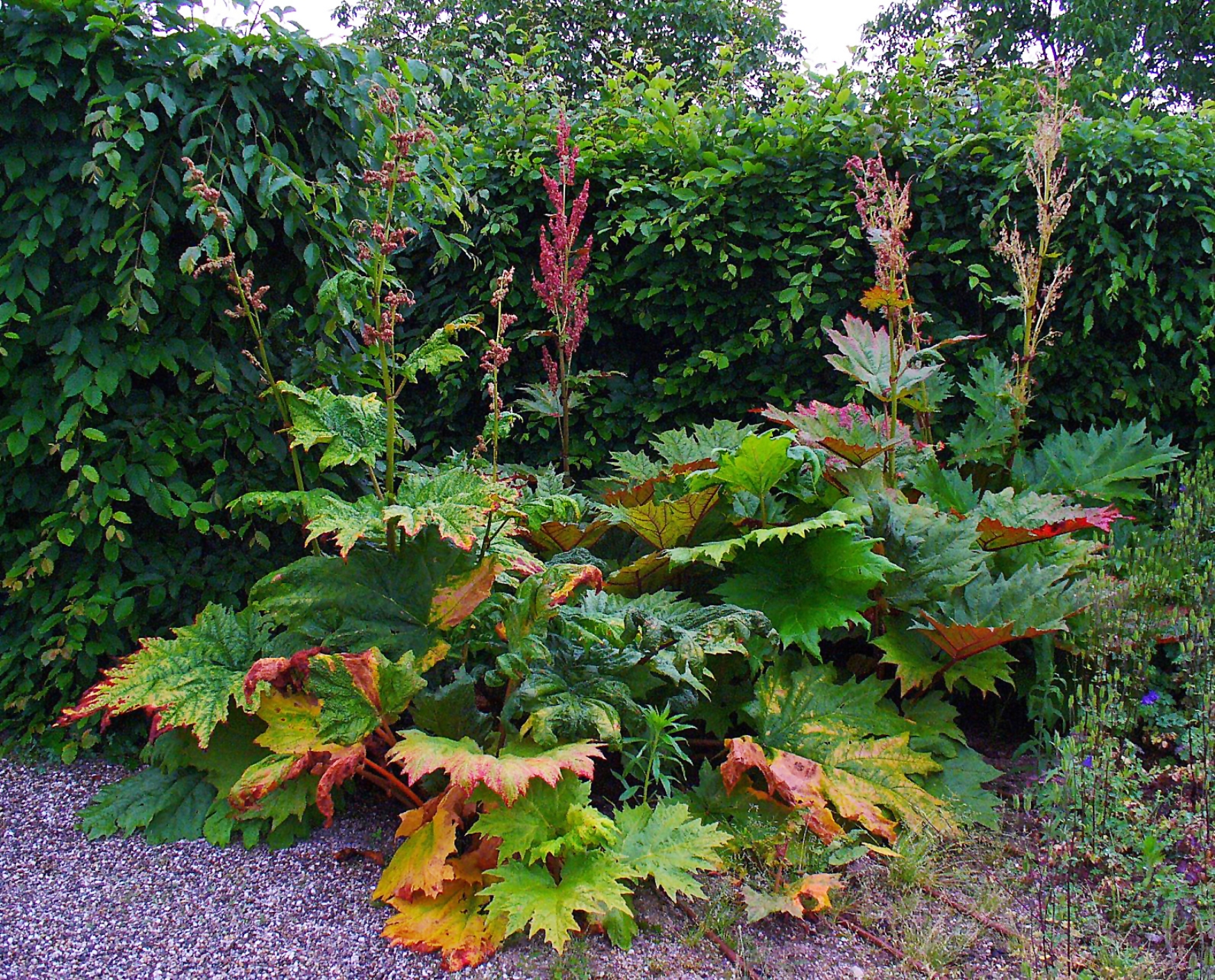 Rheum palmatum, Polygonaceae, Chinese Rhubarb, habitus. Karlsruhe, Germany.